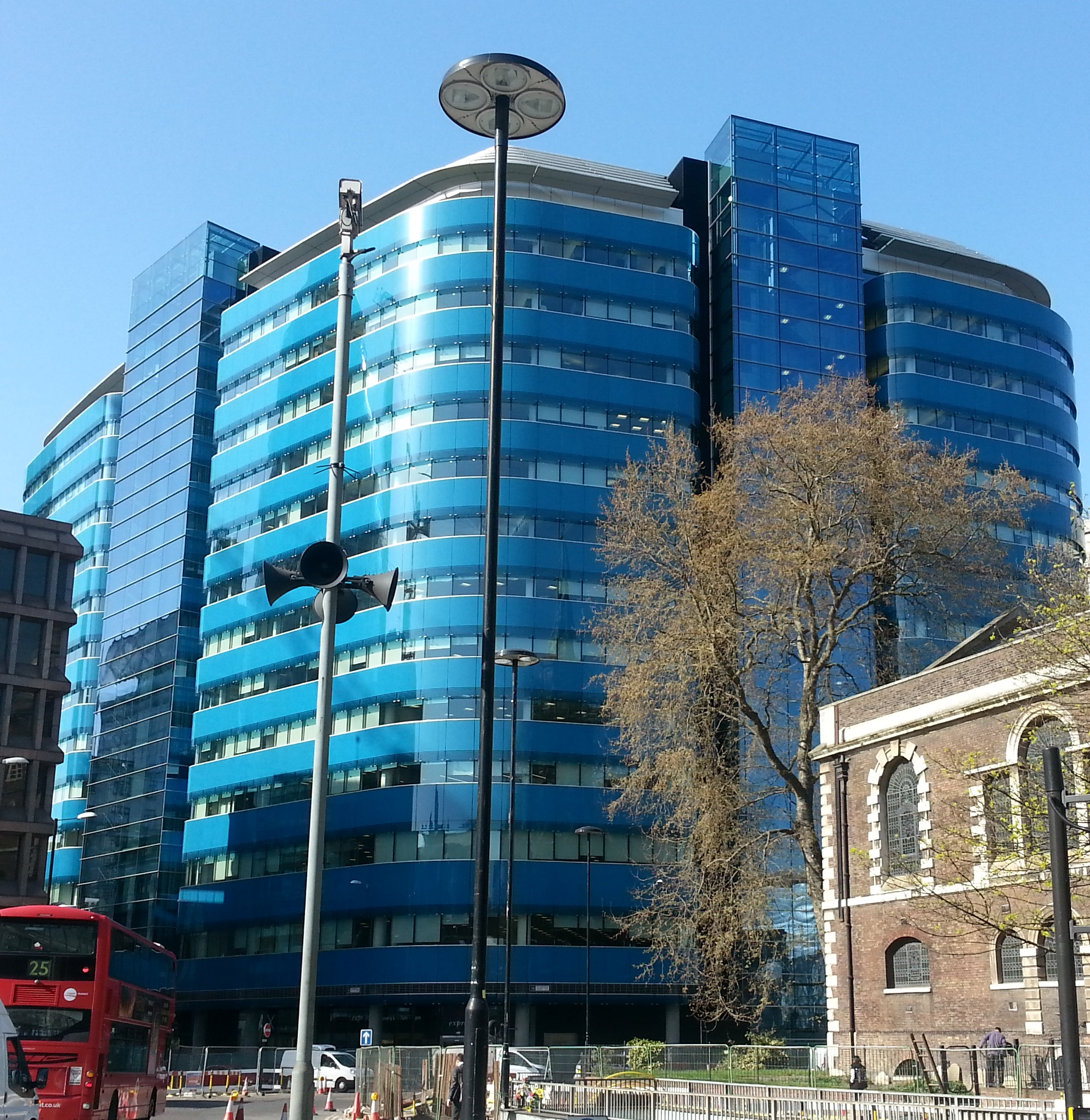 Nicholas Grimshaw-designed office block, delivered started in 2007 and delivered in 2011, seen from the Aldgate Gyratory with St Botolph's Aldgate visible to the right and a London bus in front.